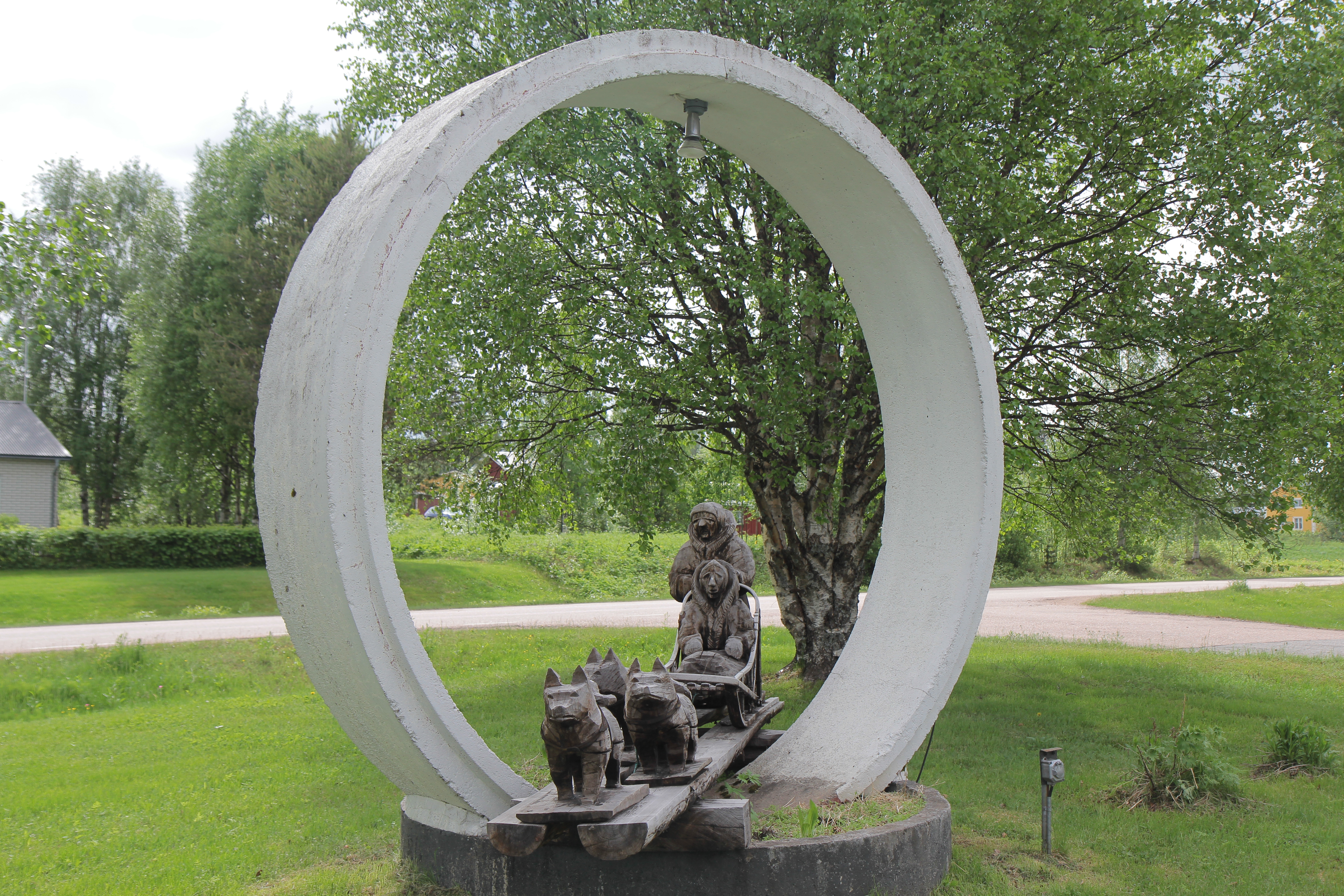 A statue of Leonhard Seppala, his wife Constance and his dogs in the town of Junosuando.